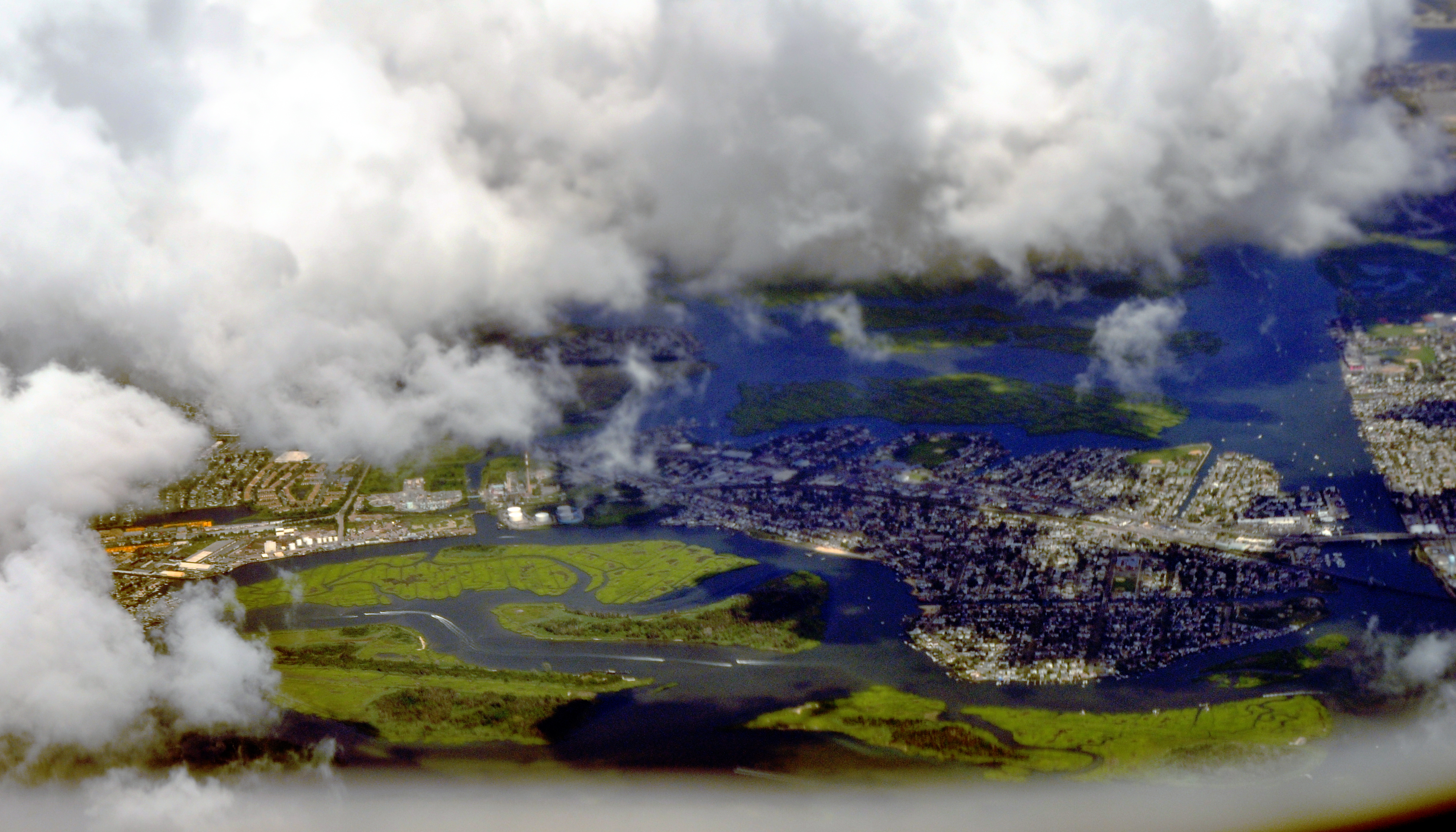 Aerial view from the west of Barnum Island and Harbor Isle, south of Oceanside, New York.